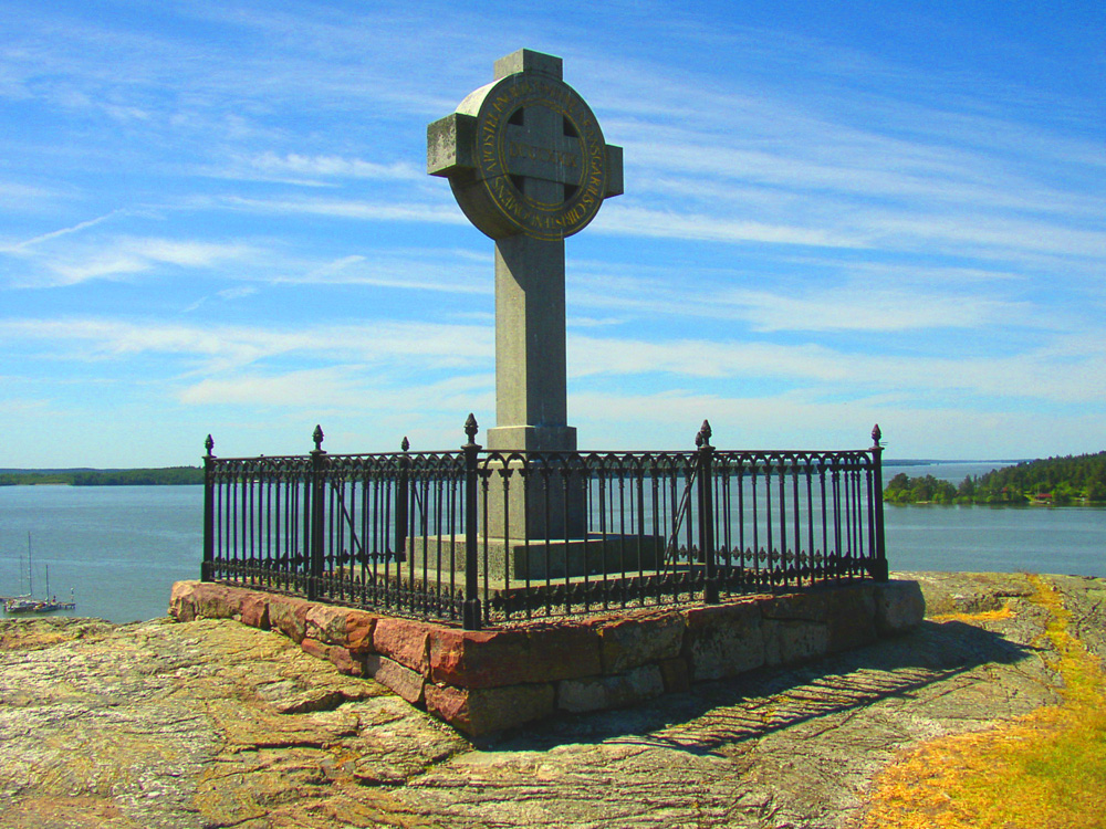 On top of the island Björkö (birch island), the monument of Ansgar.